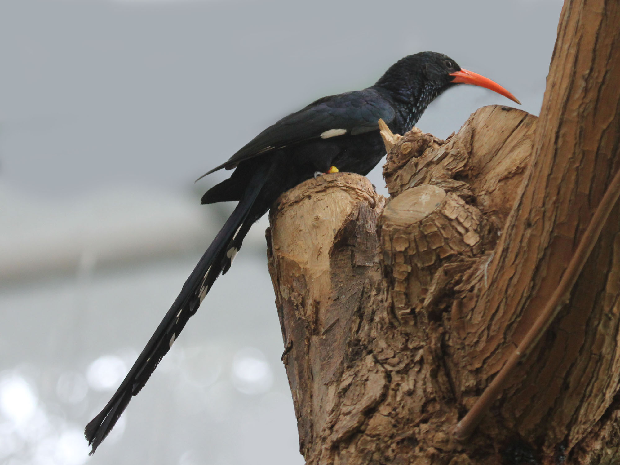 Green Wood Hoopoe (Phoeniculus purpureus) - San Diego Zoo. This is subspecies Phoeniculus p. marwitzi.